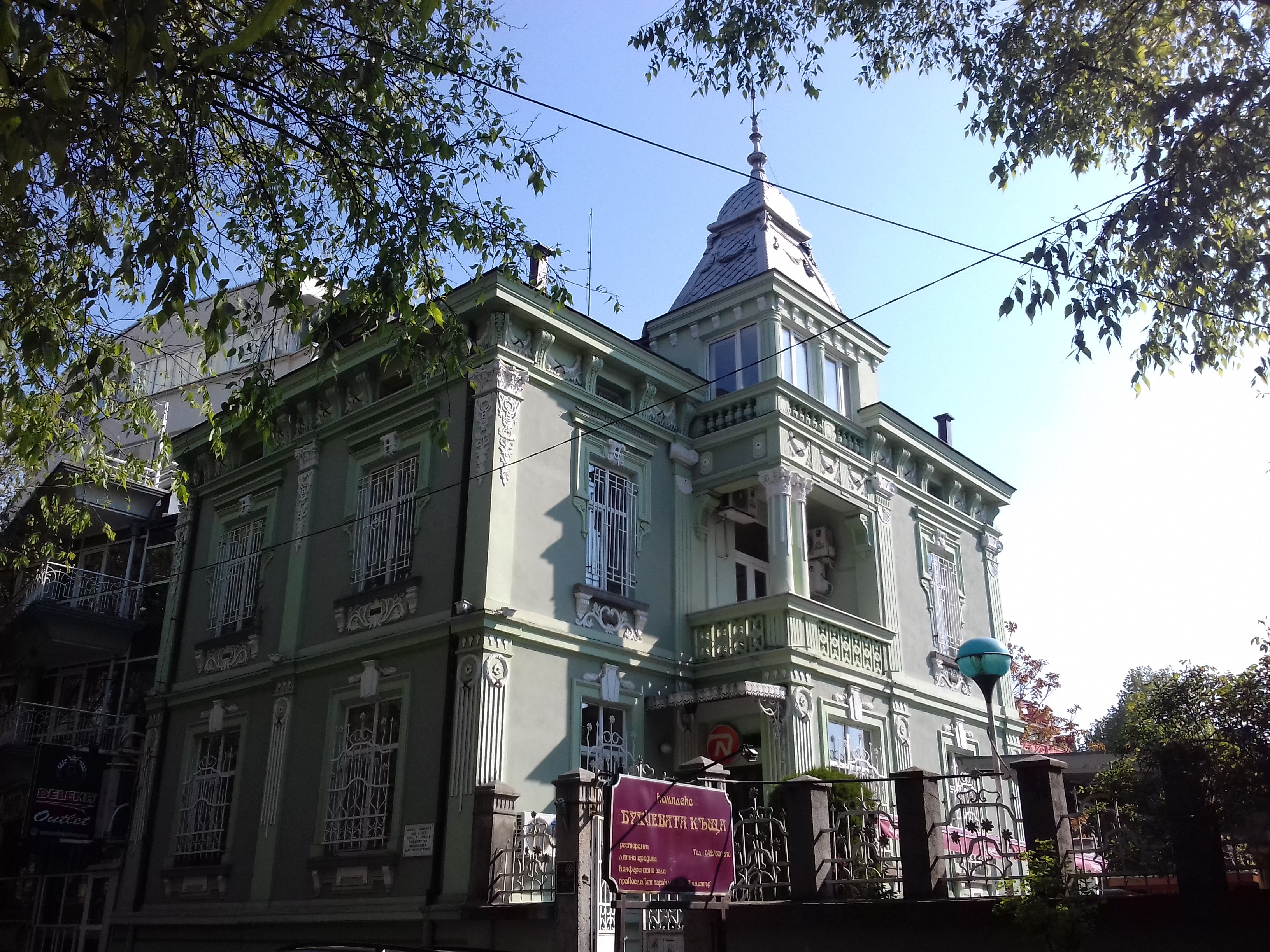 Buhcheva house in Stara Zagora, Bulgaria.